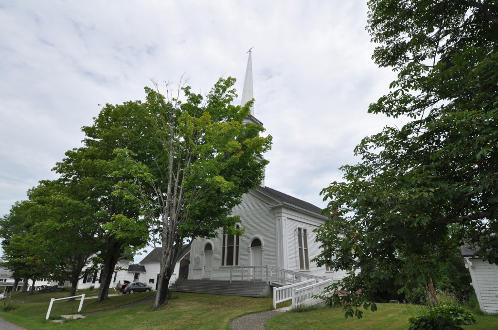 Sheepscot Community Church, on the Newcastle side of the Sheepscot Historic District of Alna and Newcastle, Maine.